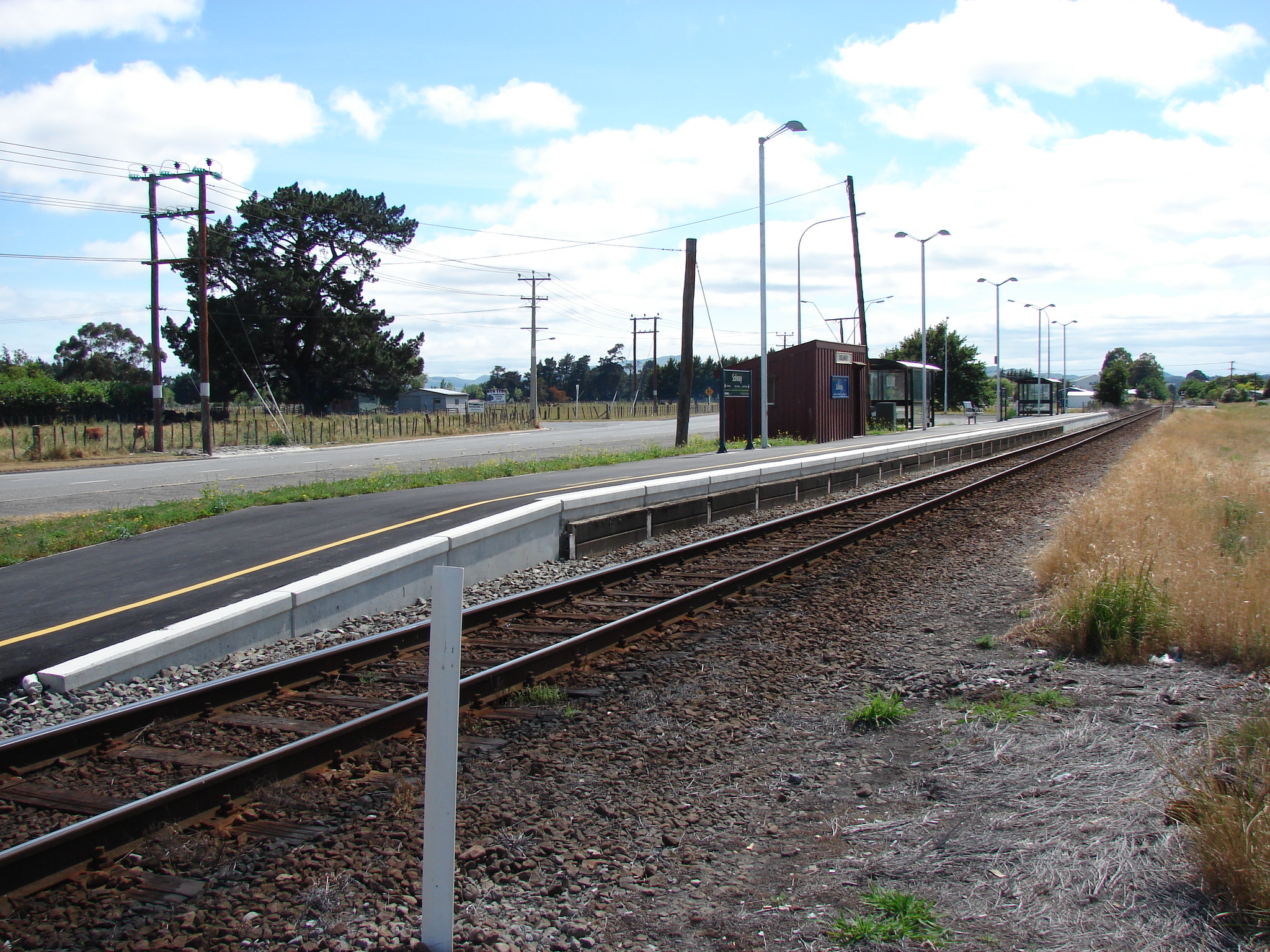 Solway railway station. Photographed by Matthew25187 on 2007-12-15.